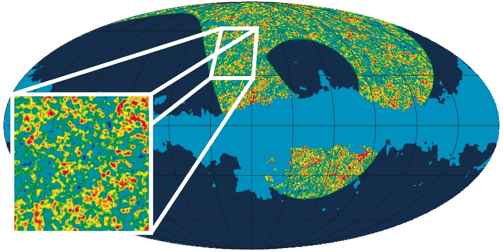 Maps of the Cosmic Microwave Background sky extracted from Archeops last flight data. Created using IDL (Interactive Data Language) for the cover of the Astronomy and Astrophysic journal (Volume 436). Image created by uploader.